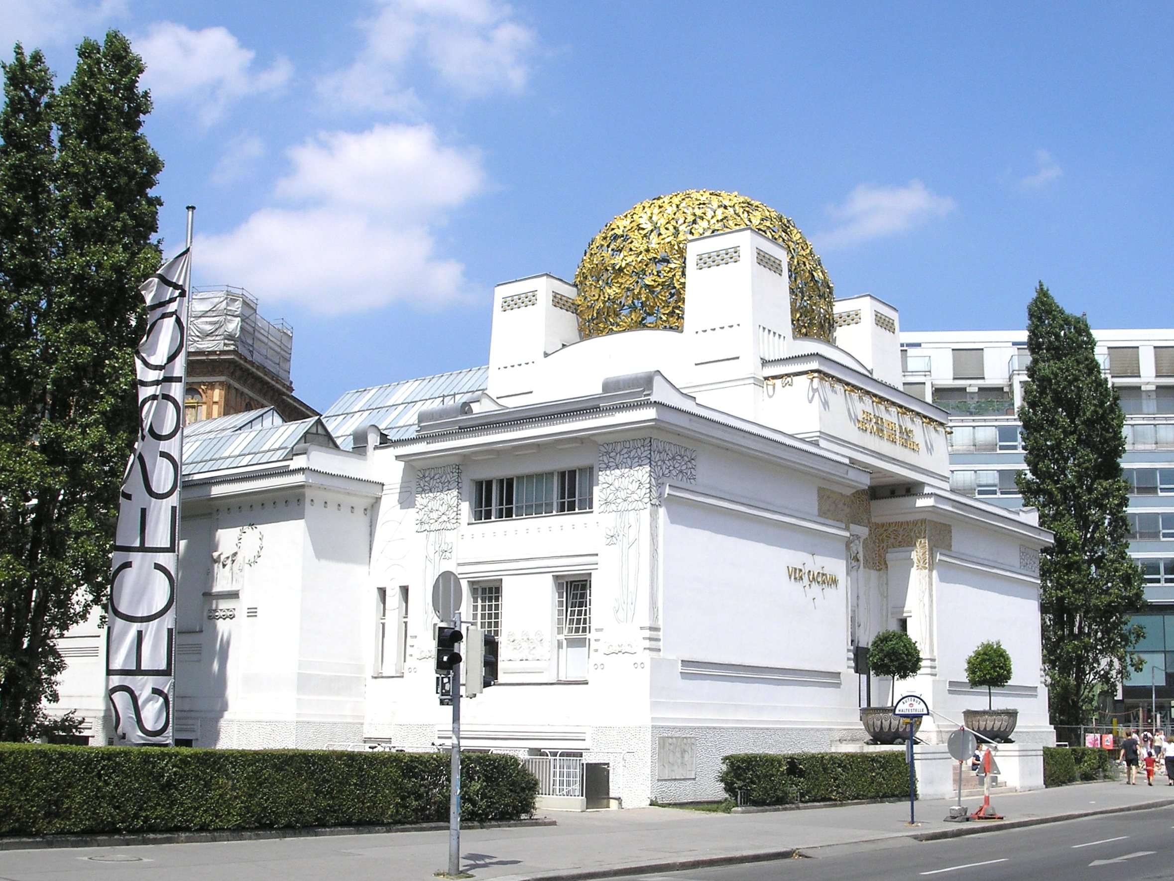 Austria, Vienna, Secession hall